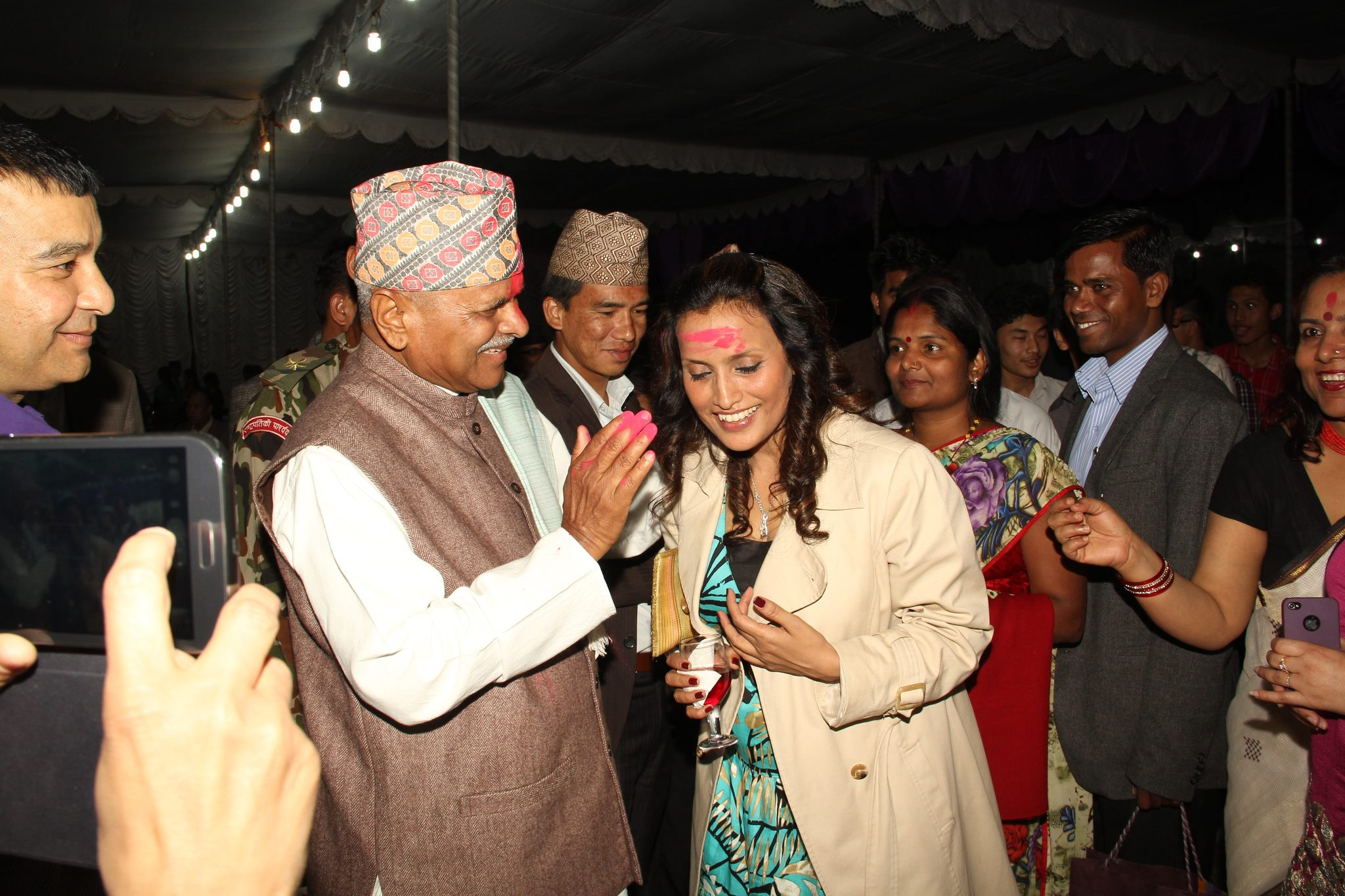 with father